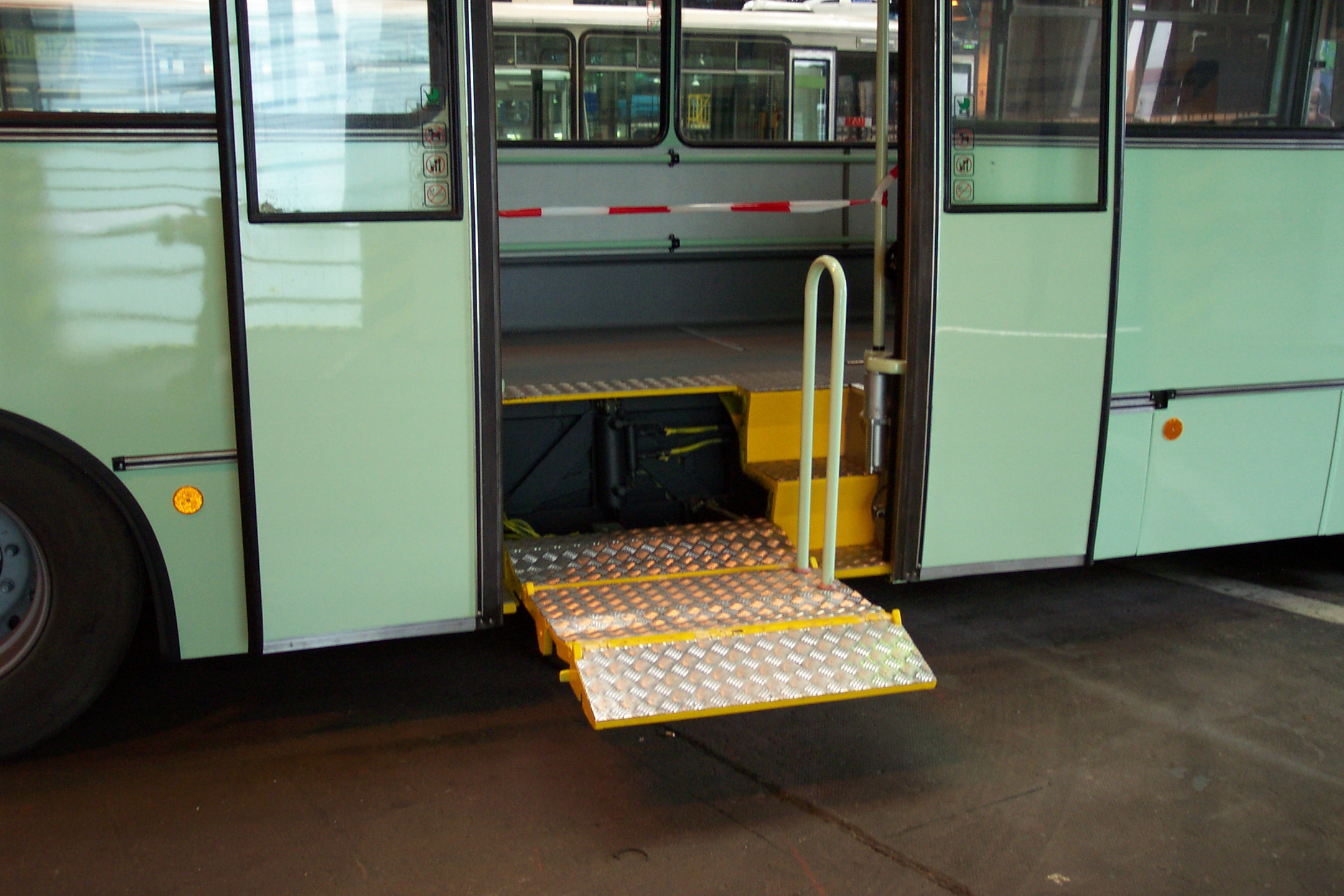 The access ramp for handicaped passengers in the Karosa B 732 bus - Rampa pro osoby se sníženou pohyblivostí v autobusu Karosa B 732